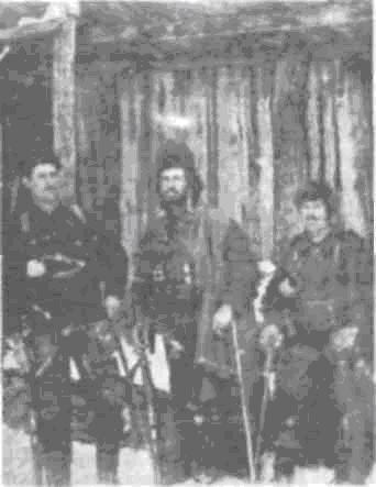 Boris Tikov in the middle